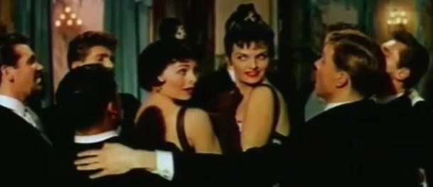 Jeanne Crain & Jane Russell in Gentlemen Marry Brunettes - trailer (cropped screenshot)